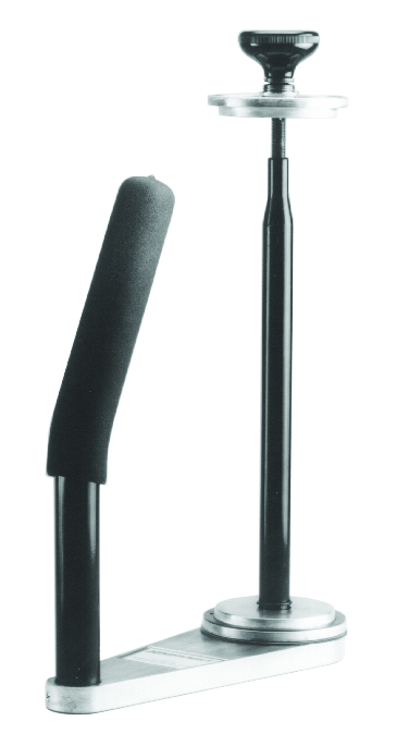 The Highlight Industries Highlight Handwrapper, a mechanical brake manual stretch wrapper.